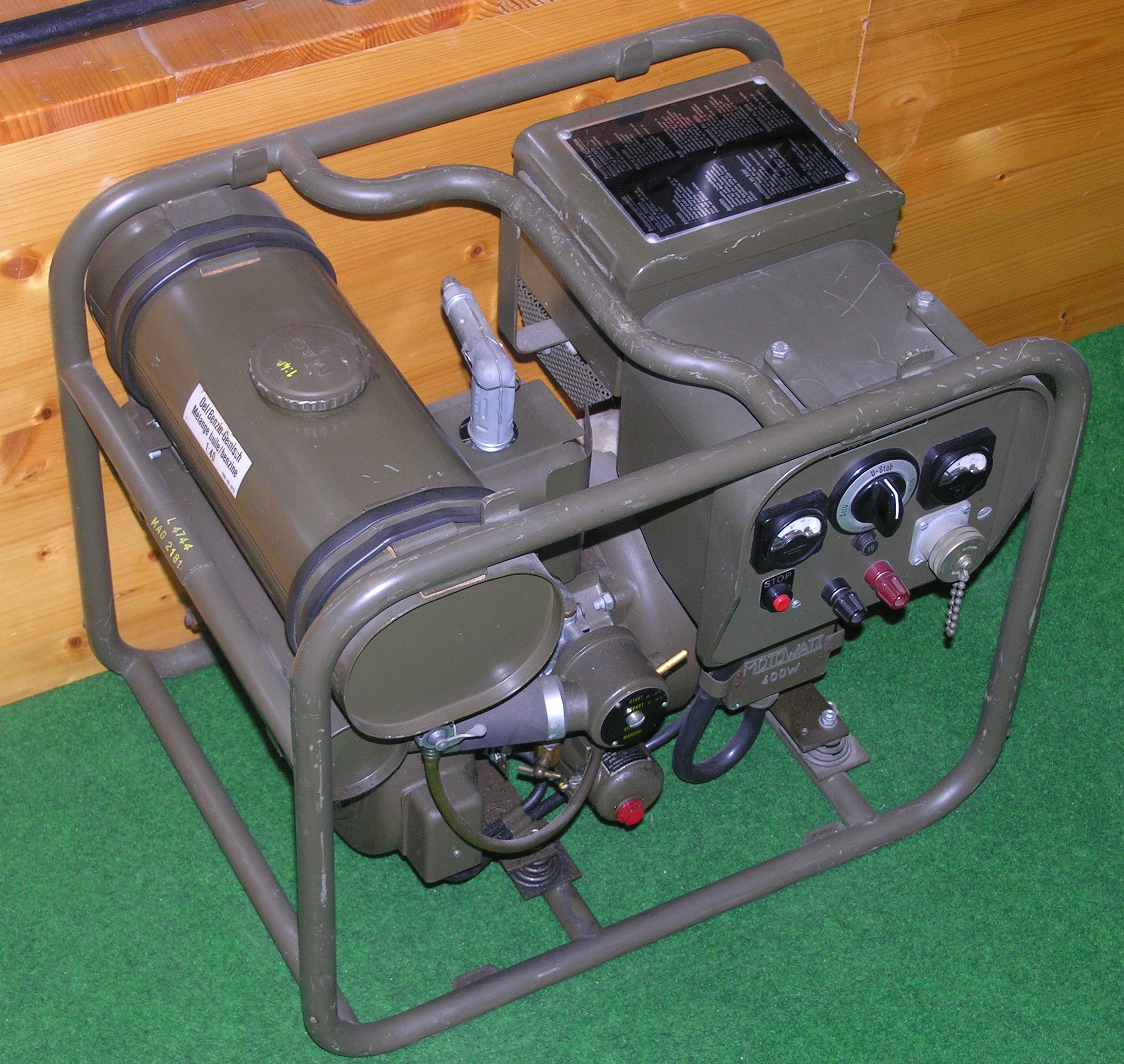 Military engline driven electric generator